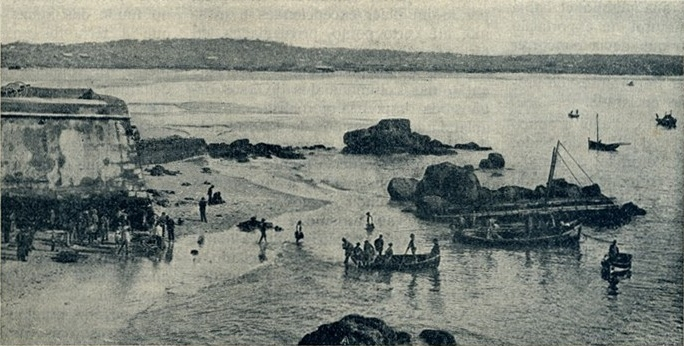 Praia do Cais da Solaria (Solaria Pier Beach), near the city of Lagos, in the Algarve region, Portugal. On the left is the Ponta da Bandeira Fort. This image was published in the Revista do Turismo magazine No. 2, of 20th July 1916, and scanned by the Hemeroteca Municipal de Lisboa.